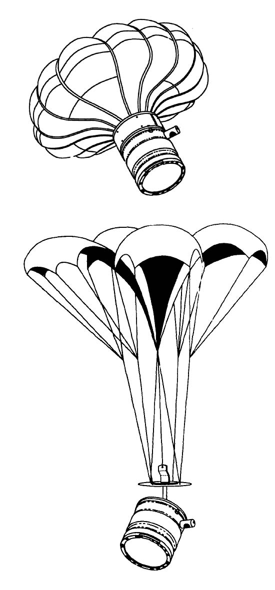 Based on images inside a US Gov PDF document available here: So PD.